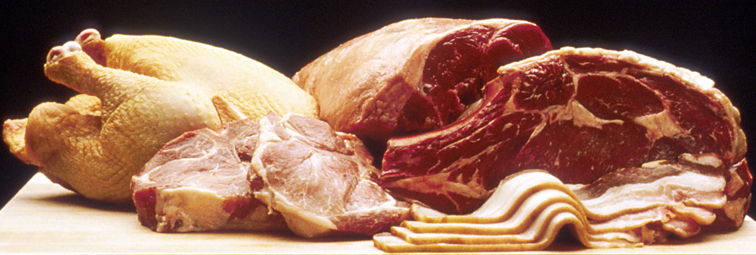 Public domain photograph of various meats. (Beef, pork, chicken.)